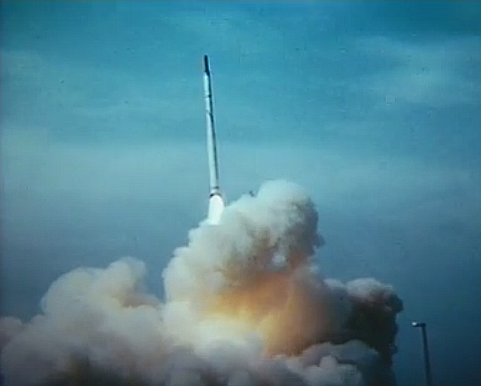 Scout ST-2 rocket, just after launch.